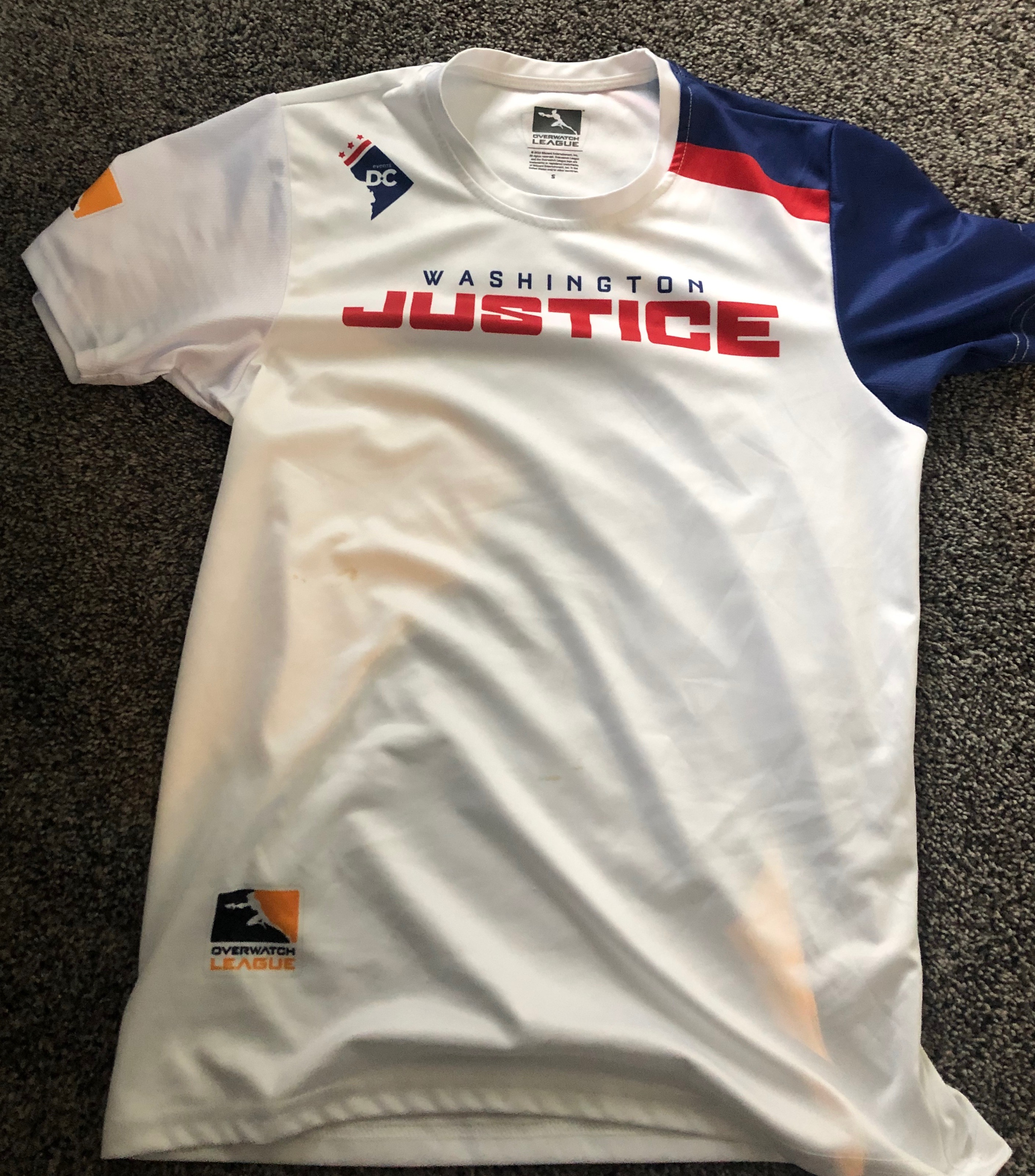 Top left: DC Events logo (the sponsor) Top middle: Washington Justice's away logo Bottom left: Overwatch League